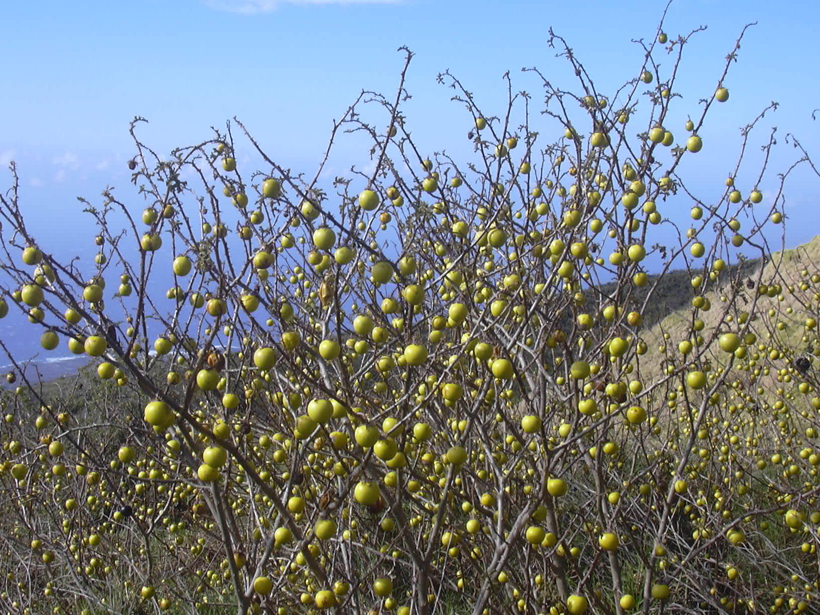 Solanum linnaeanum (fruits). Location: Maui, Auwahi